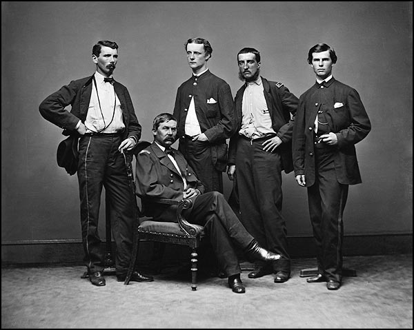 General Buford (seated) and staff. From left to right: Myles Keogh, John Buford, Peter Penn-Gaskell, Craig Wharton Wadsworth, and Albert Payson Morrow.